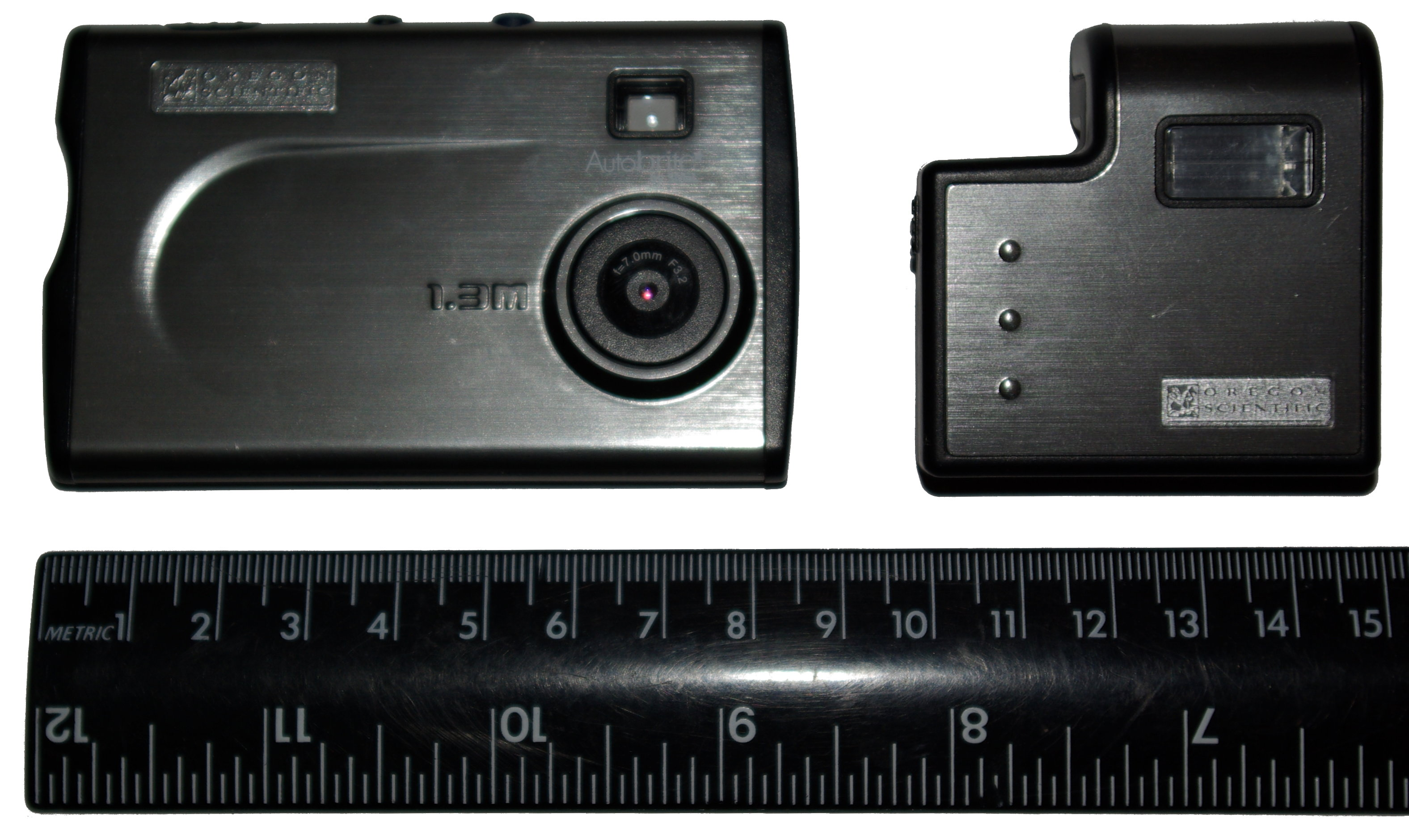 A pocket-sized digital camera made by Oregon Scientific